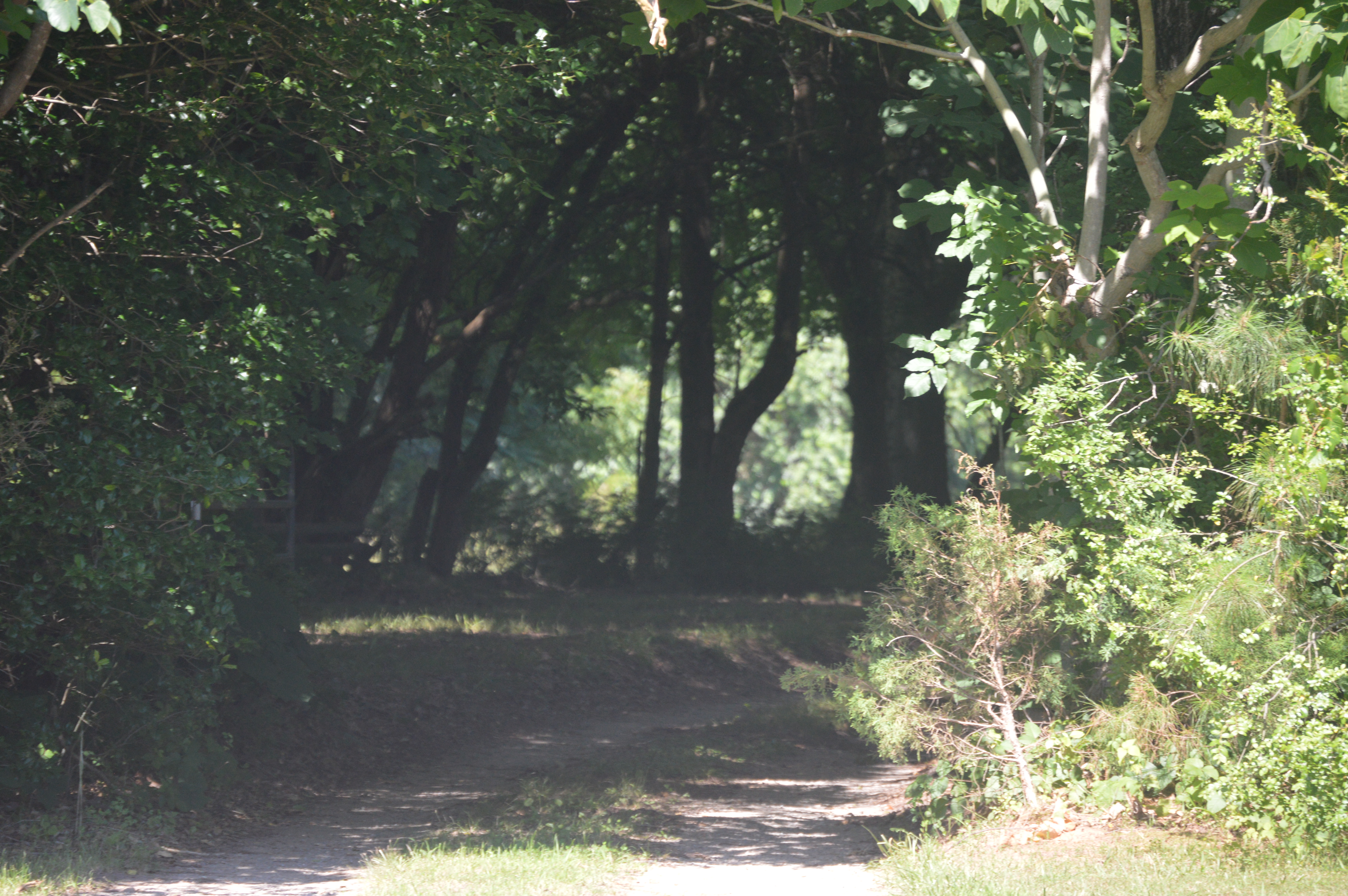 Entrance to the Seaton estate, located on U.S. Route 501 just south of Halifax in Halifax County, Virginia, United States. The estate is listed on the National Register of Historic Places.